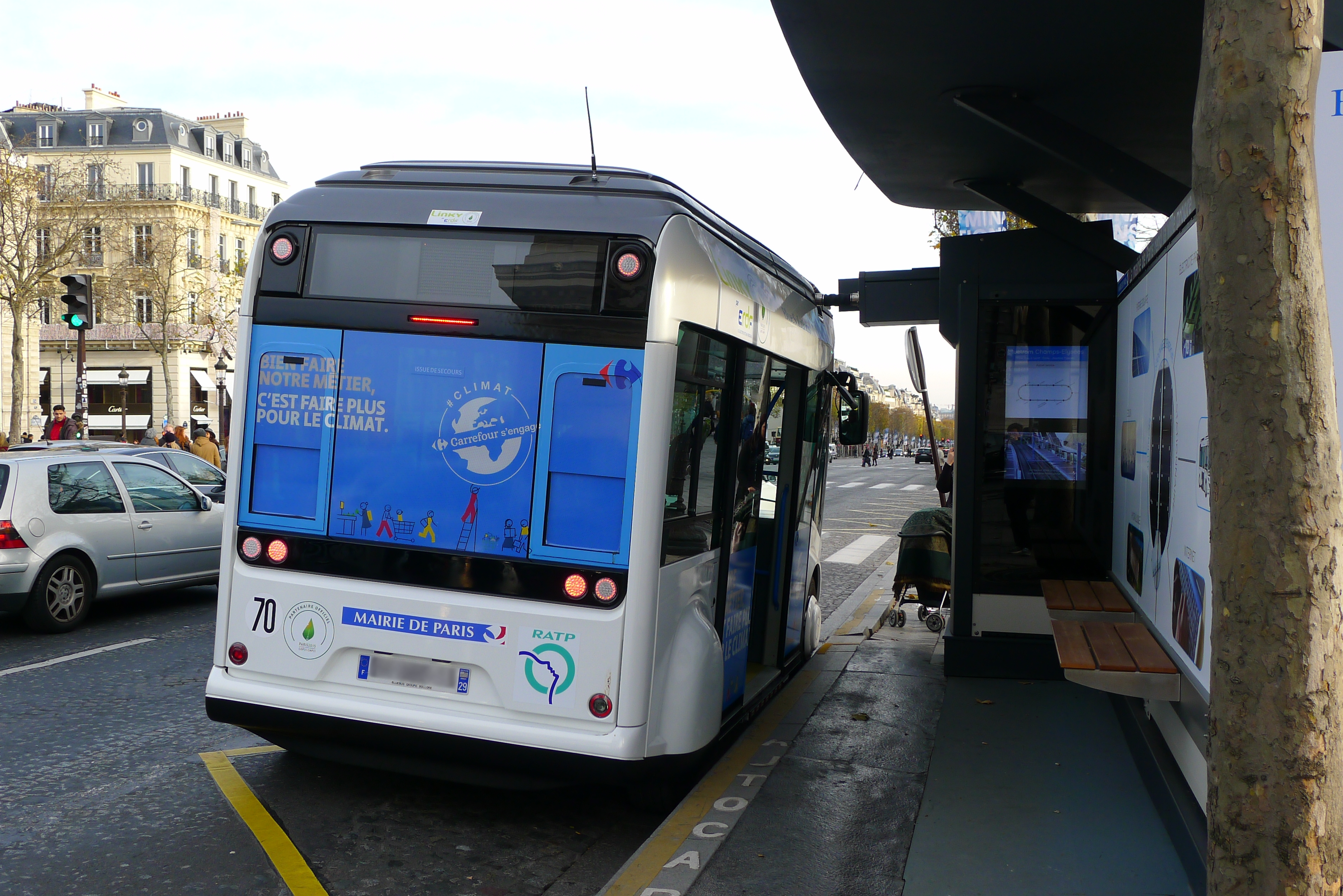 Bolloré Bus "BlueTram" on the "Champs-Elysées" during the COP21 in Paris. Picture at the "Place de l’Étoile" during the refilling.